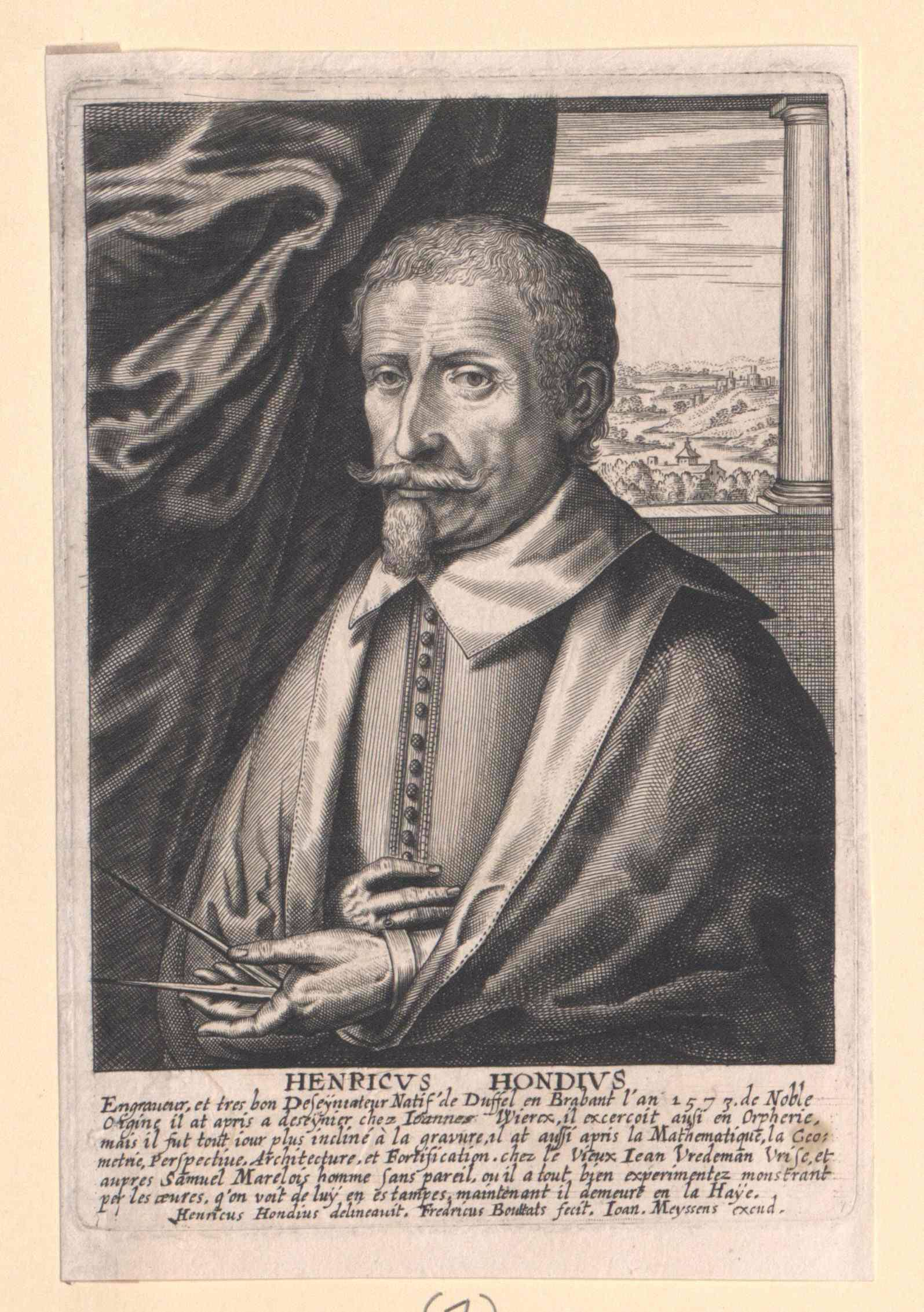 Portrait of Hendrick Hondius in Cornelis de Bie's Gulden Cabinet.